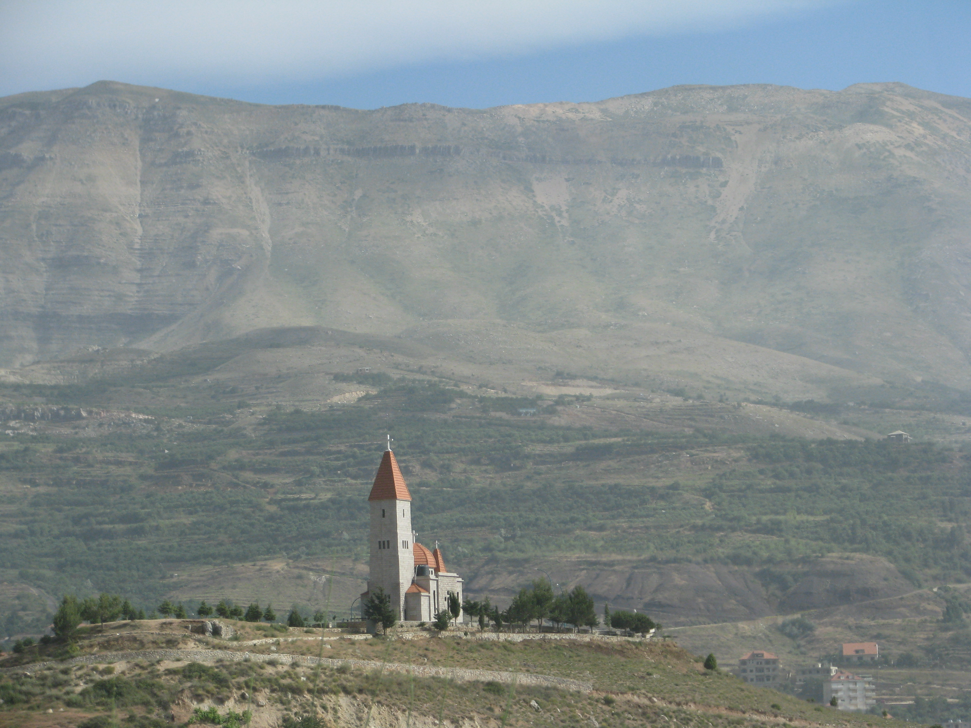 Sacred Heart Church of Qadisha Valley